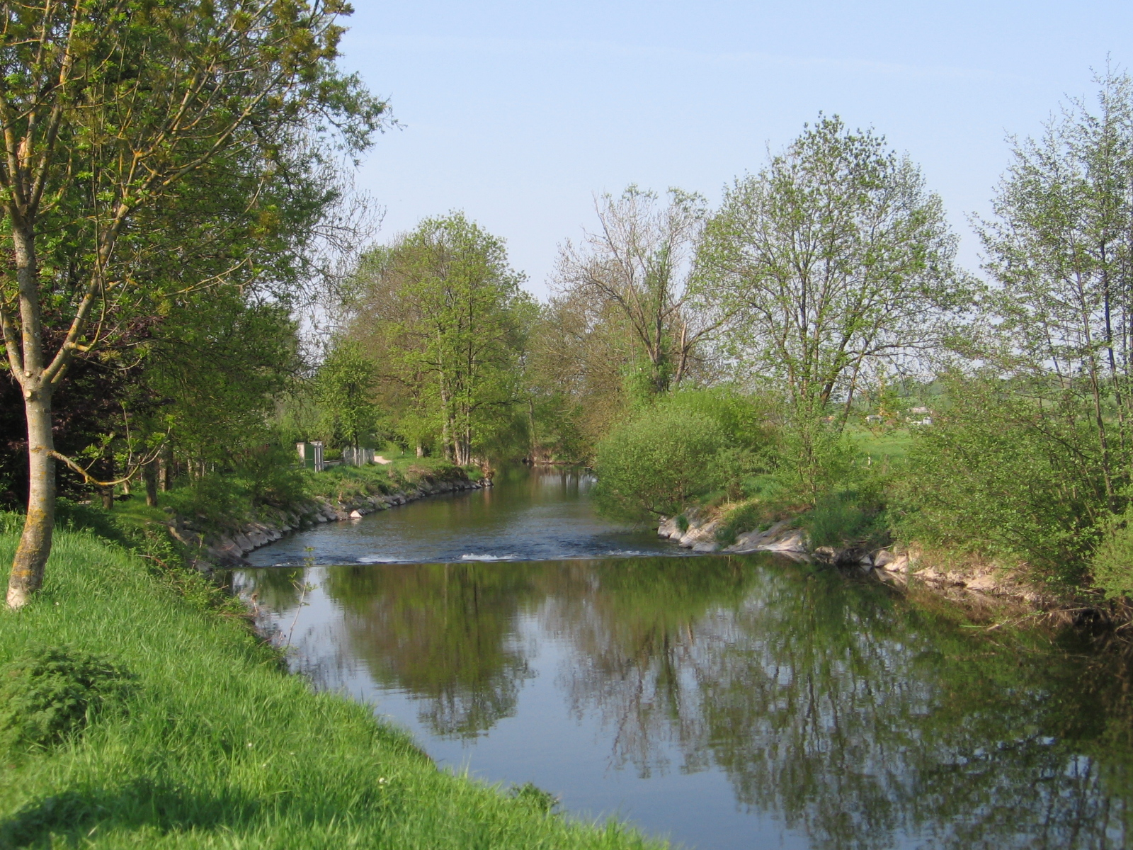 L'Ognon river near Lure, may 2006